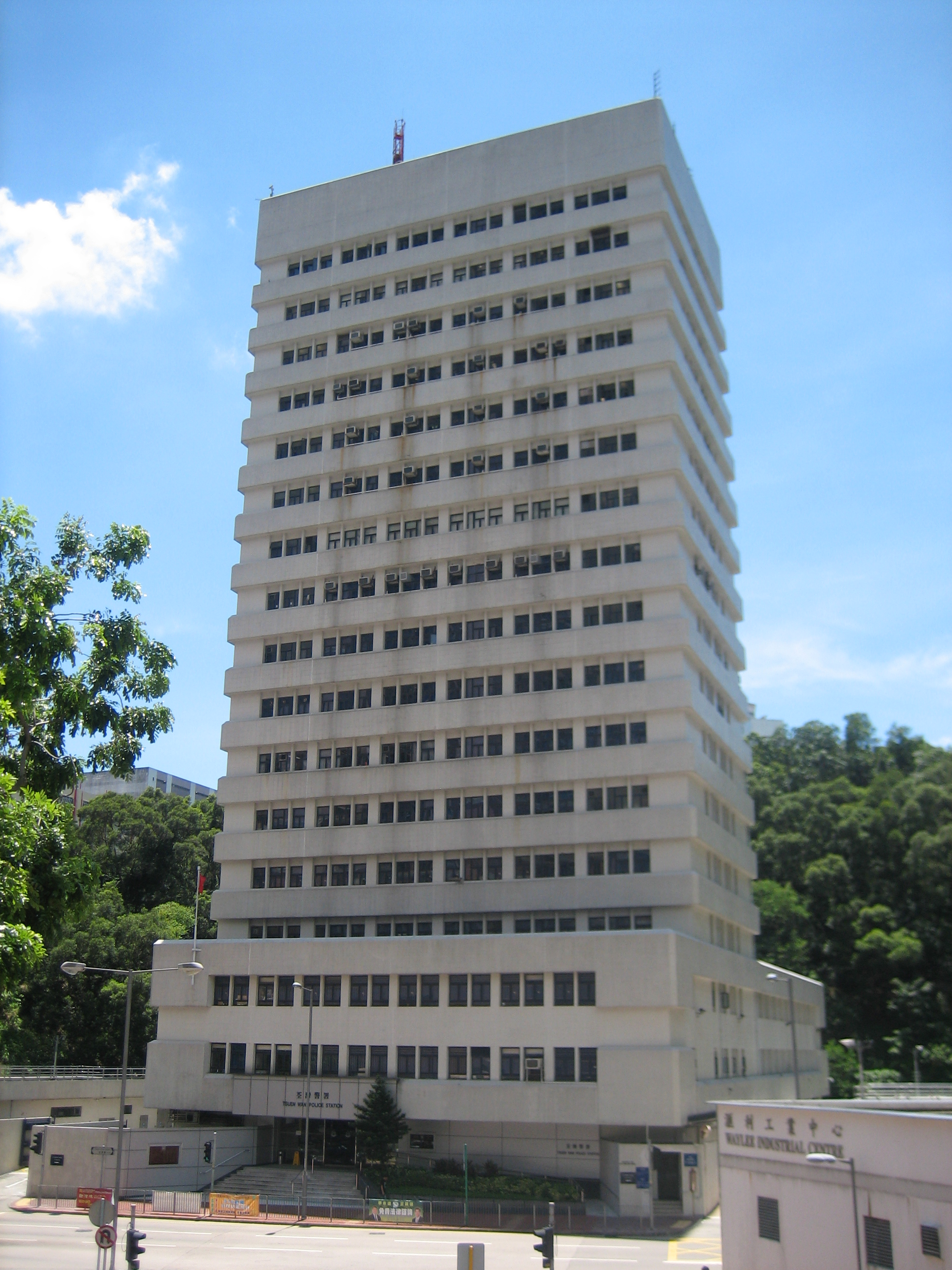 Tsuen Wan Police Station